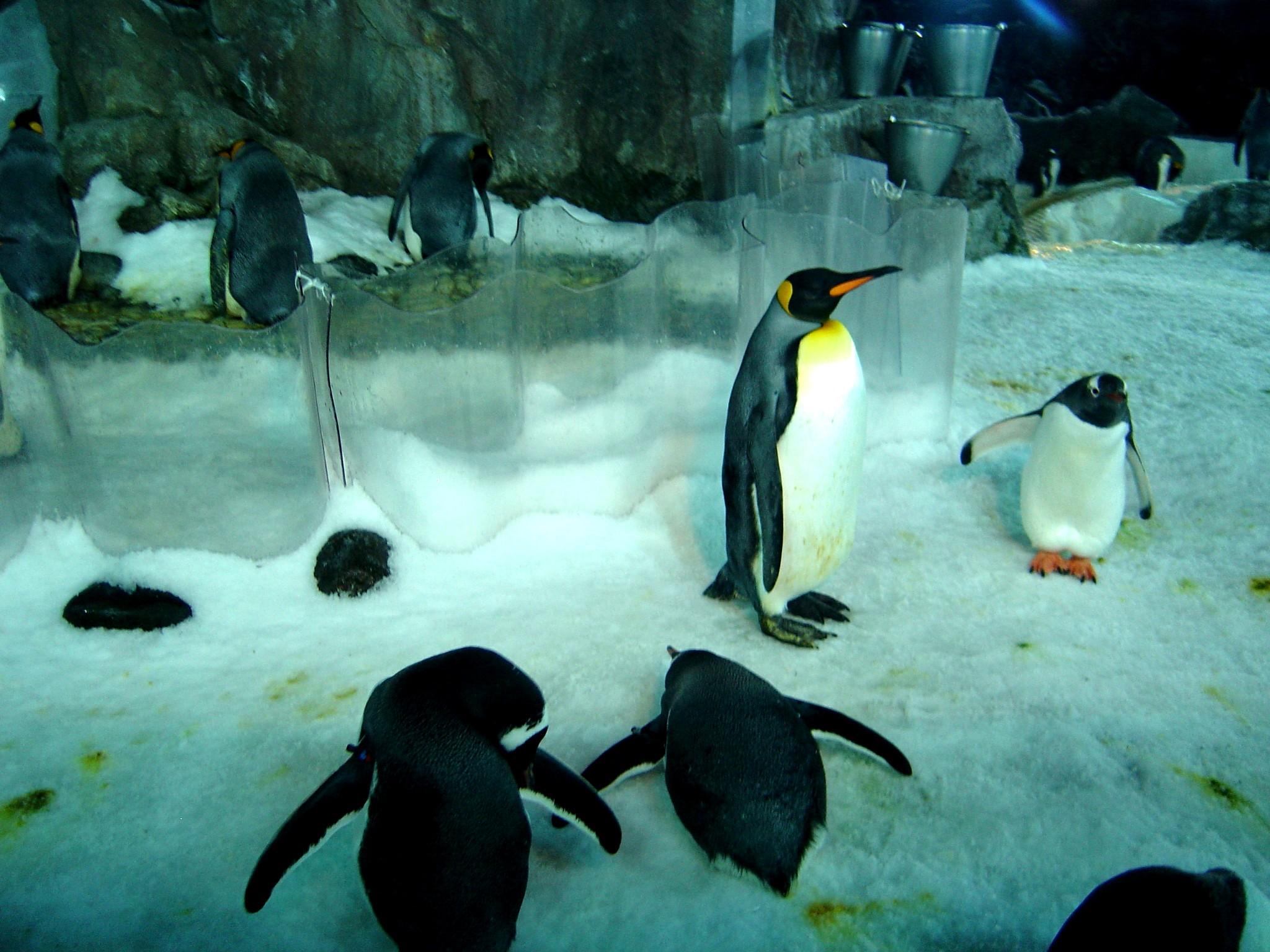 Images of Penguins in the Antarctic encounter area of Kelly Tarltons